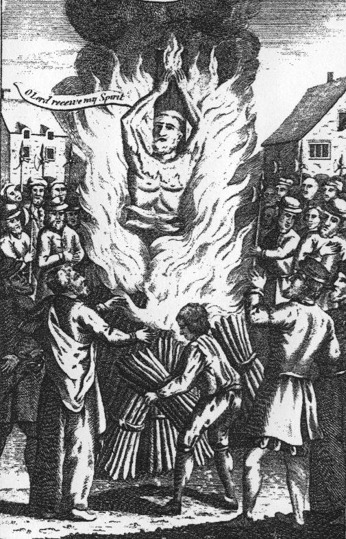 Scan of a woodcut from the Book of Martyrs showing Thomas Hawkes being burned to death on Market Hill, in Coggeshall. Image retrieved by AGGoH from the website of the Rare Books department of Kansas State University.